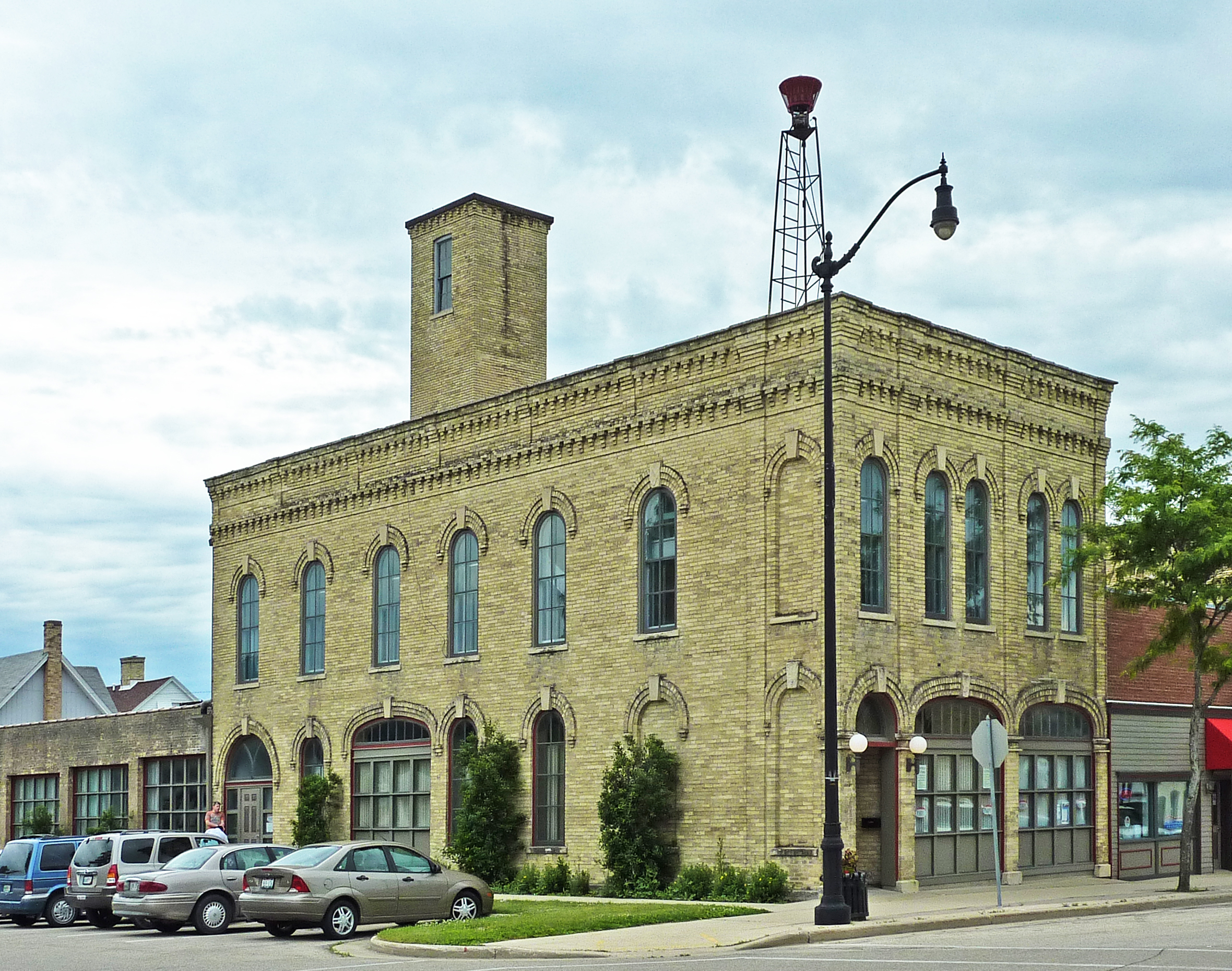 The Jefferson Fire Station building at 146 E. Milwaukee Street in Jefferson, Wisconsin, was added to the National Register of Historic Places in 1984. The building is now occupied by business firms.